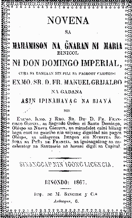 Nobena sa Inang Penafrancia